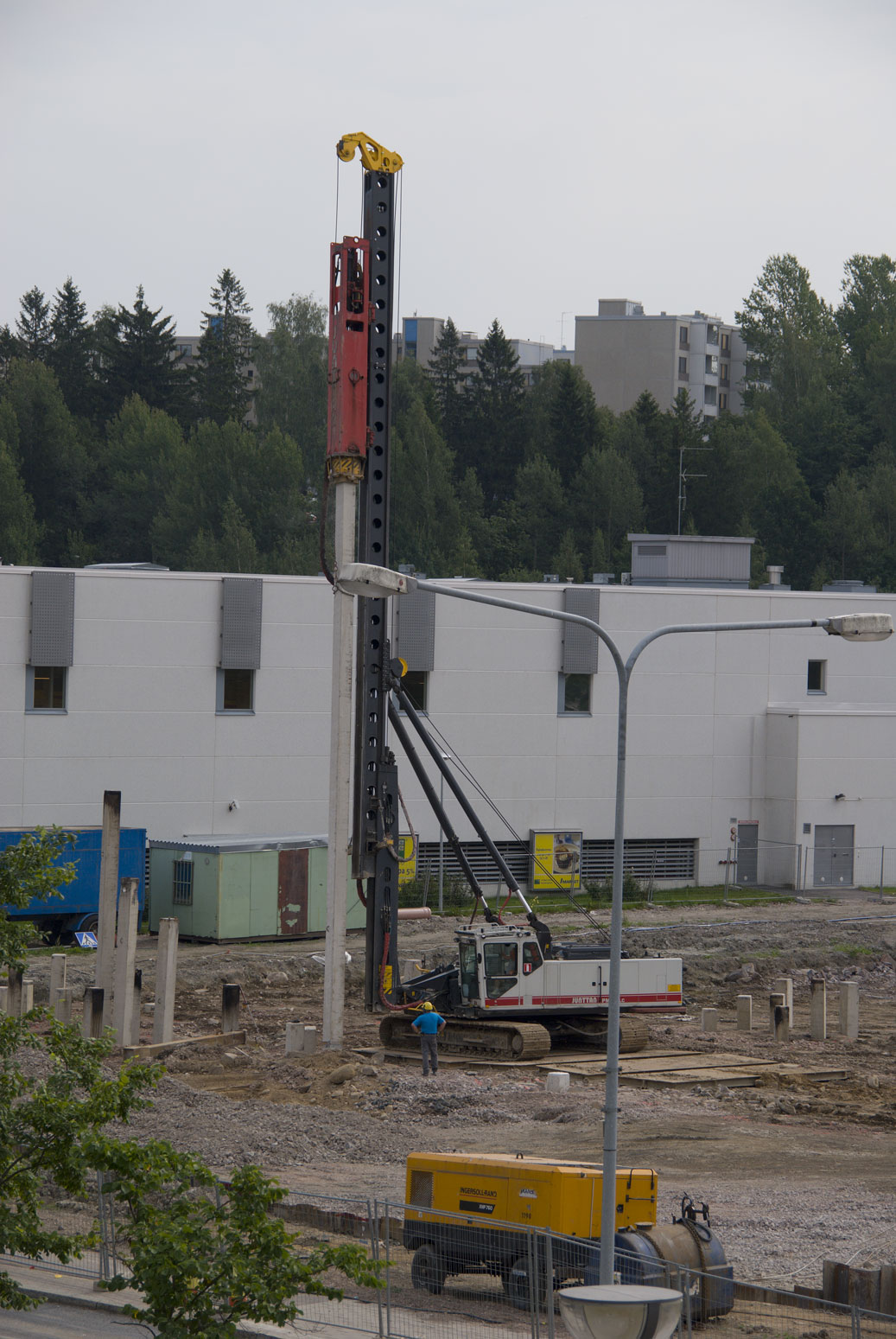 Junttan piling machine in Espoo